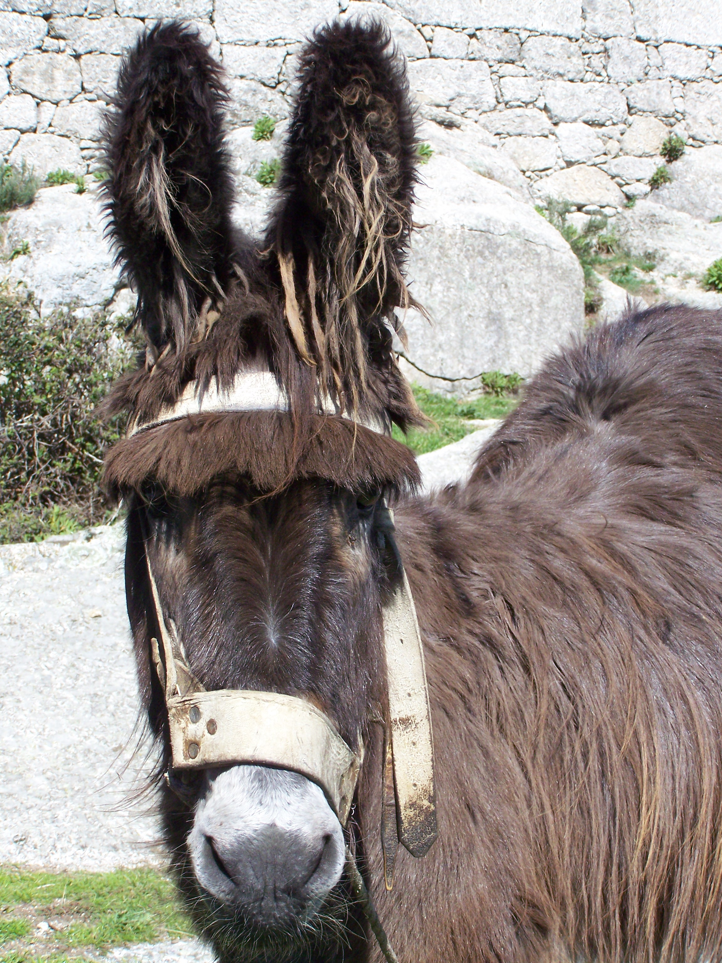 donkey in Albardeiros, Vale de Estrela, Guarda, Portugal. Serra da Estrela.